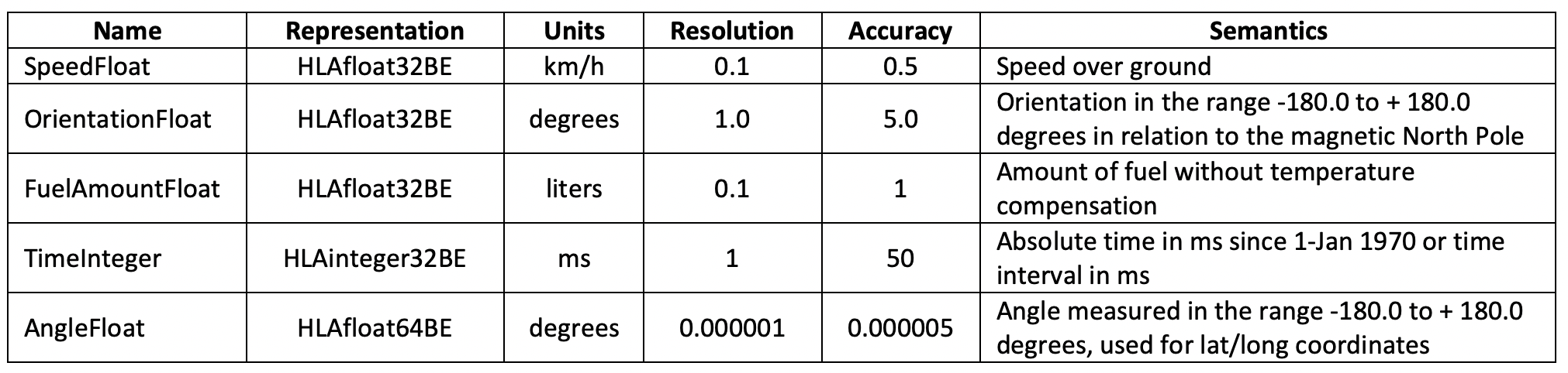 Sample HLA simple datatype table according to IEEE 1516-2010